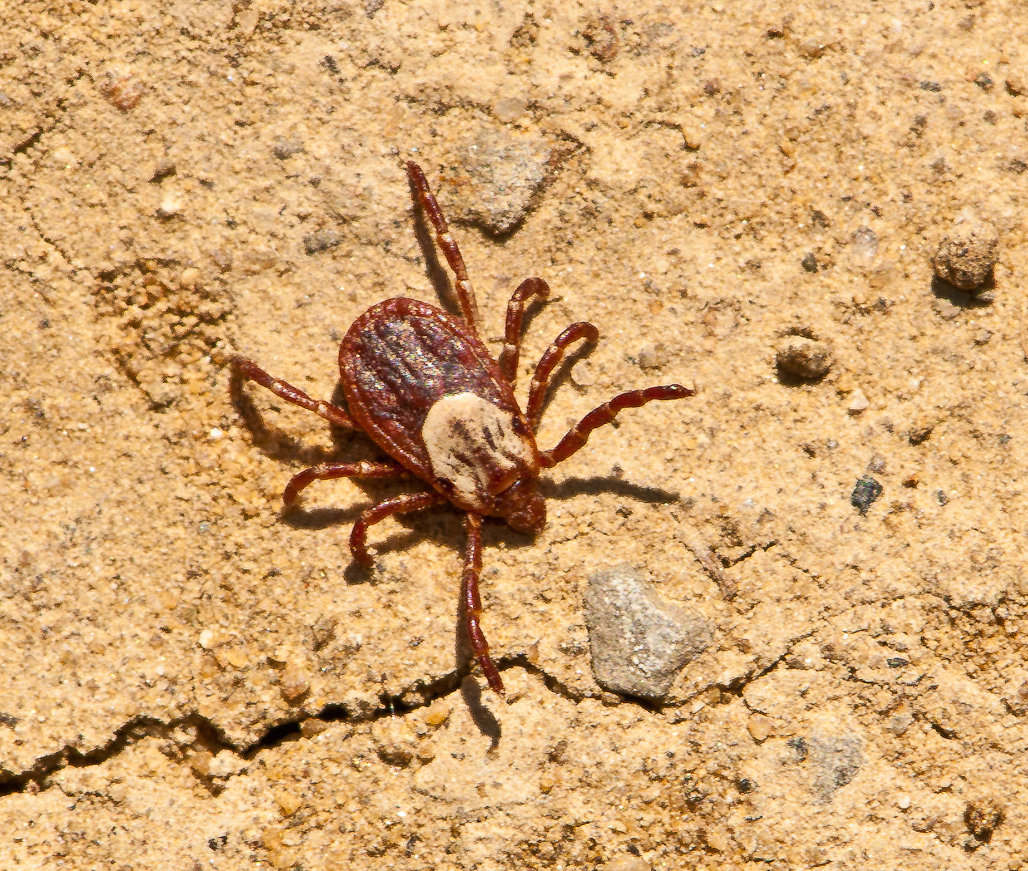 A Pacific Coast Tick at Harmony Headlands State Park, California, USA.